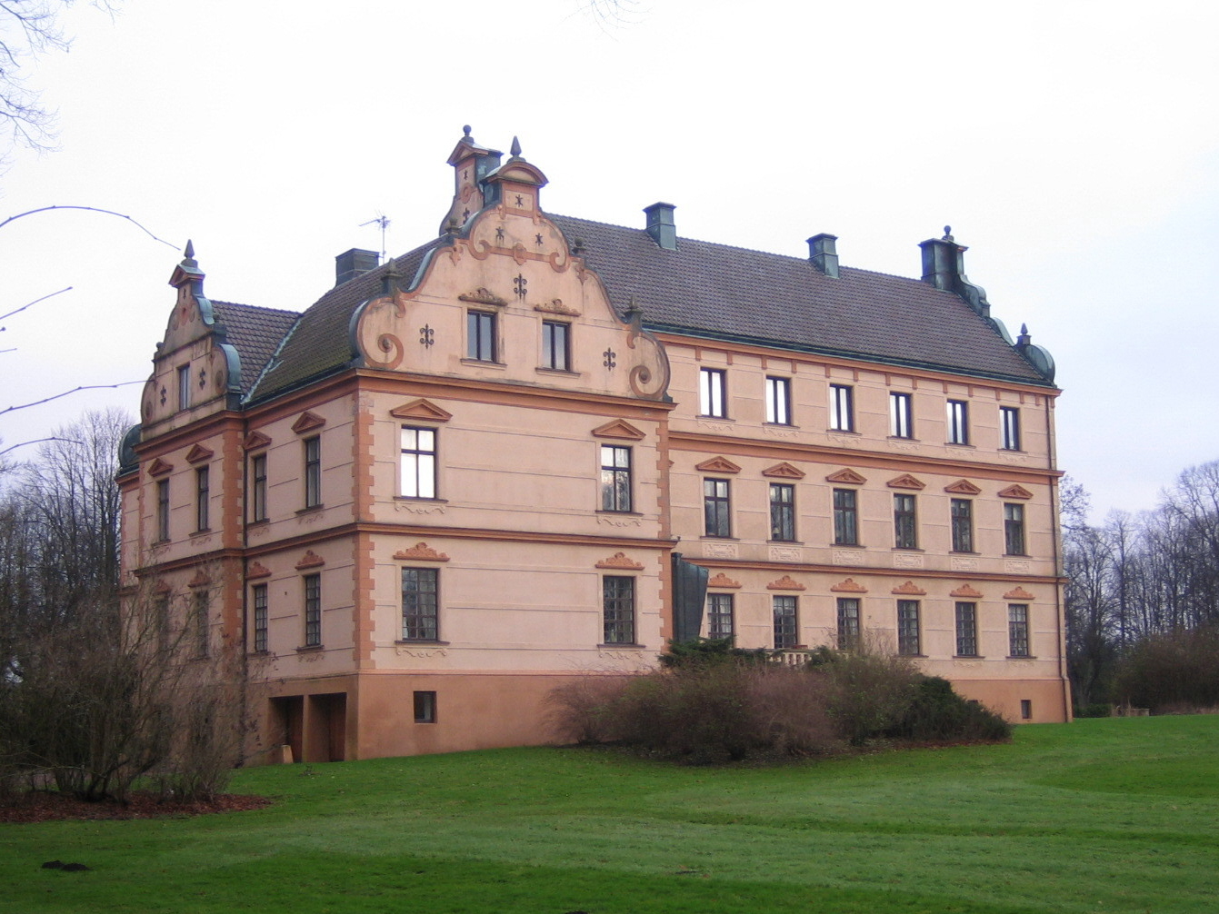 Picture of Barsebäck castle, Scania.